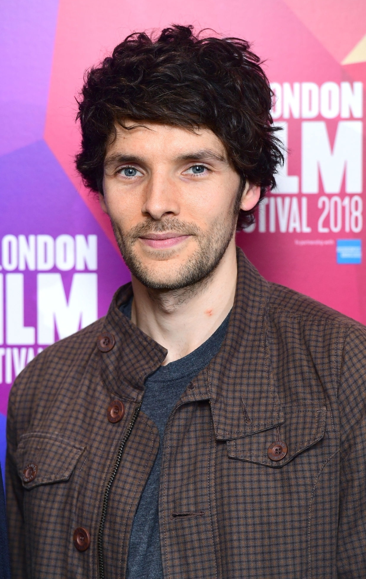 Colin Morgan in "Benjamin" premiere